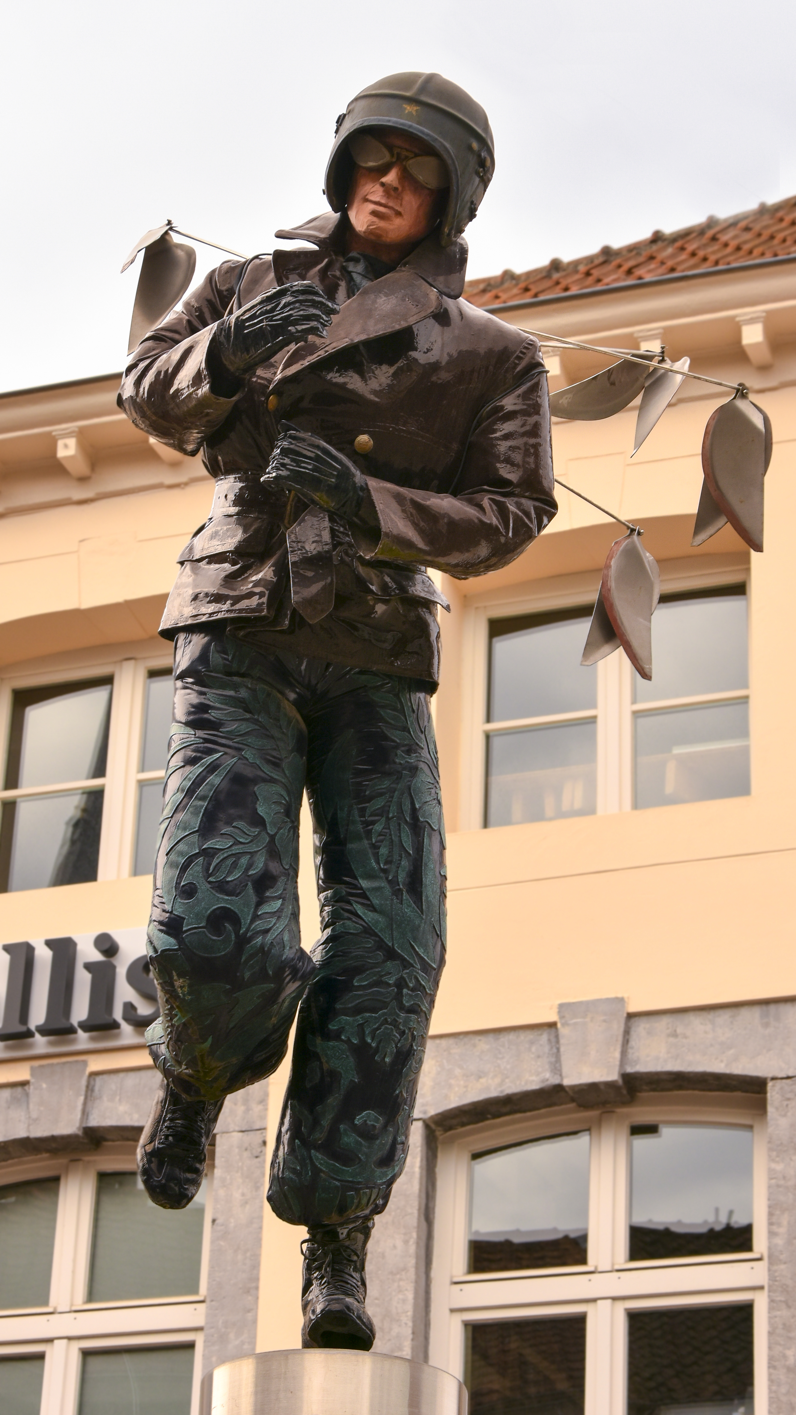 This photo of immovable heritage has been taken in the Flemish Region